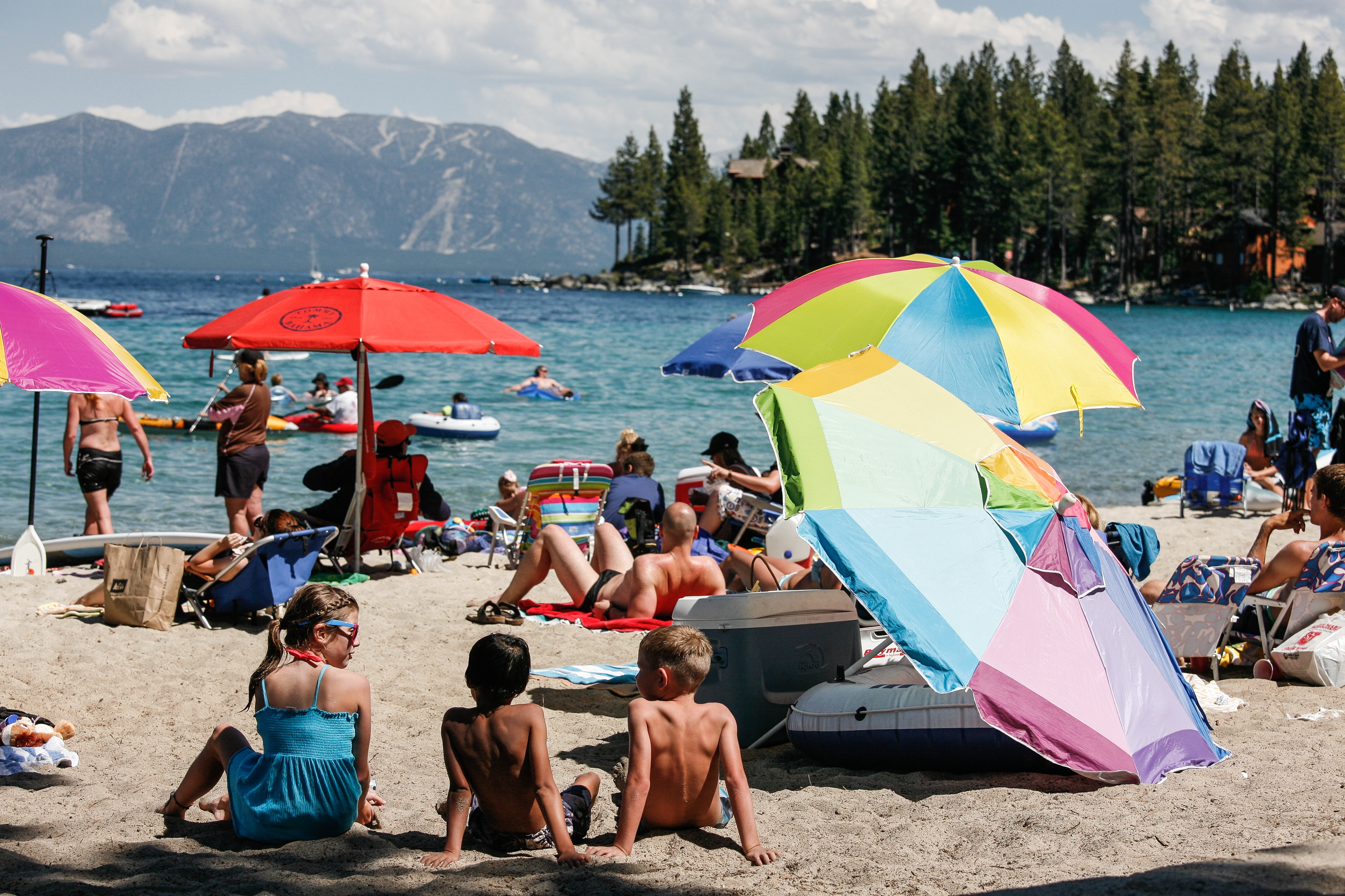 Relaxing South Lake Tahoe